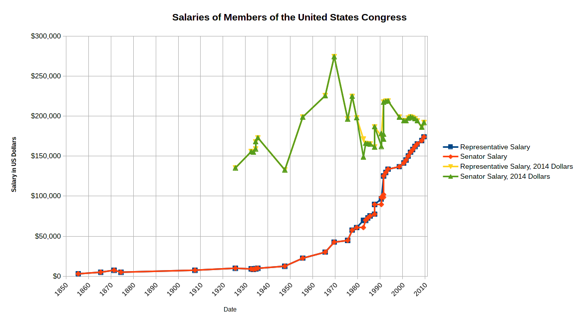 Graph showing salaries of members of the United States Congress, based on data available at: References for this description (or part of this) or for the depiction in the file are not provided. CPI data was used to adjust salaries into 2014 Dollars, taken from , which in turn obtained data from the U.S. Department of Labor Bureau of Labor Statistics.